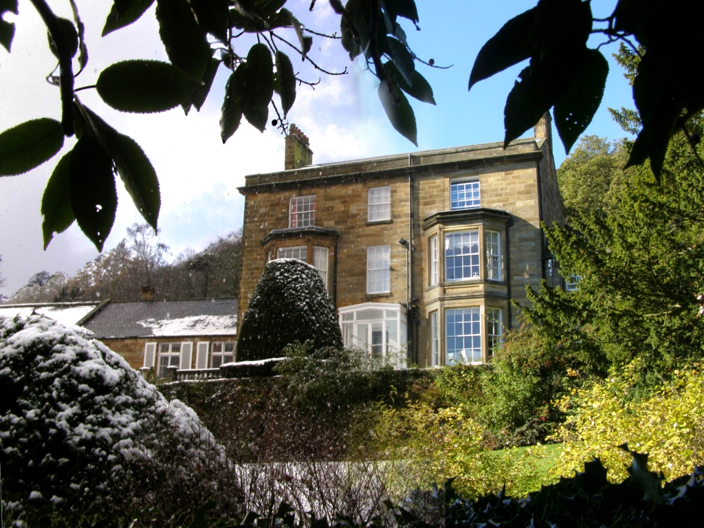 senior girls house in winter and in summer